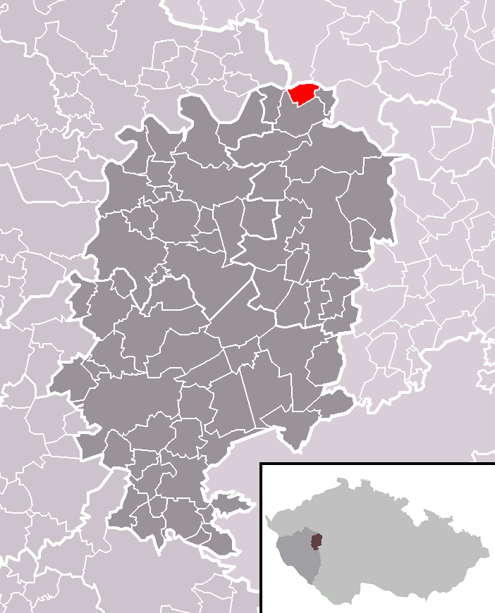 Location of Hradiště municipality within Rokycany District and within identical administrative area of Rokycany as a Municipality with Extended Competence.